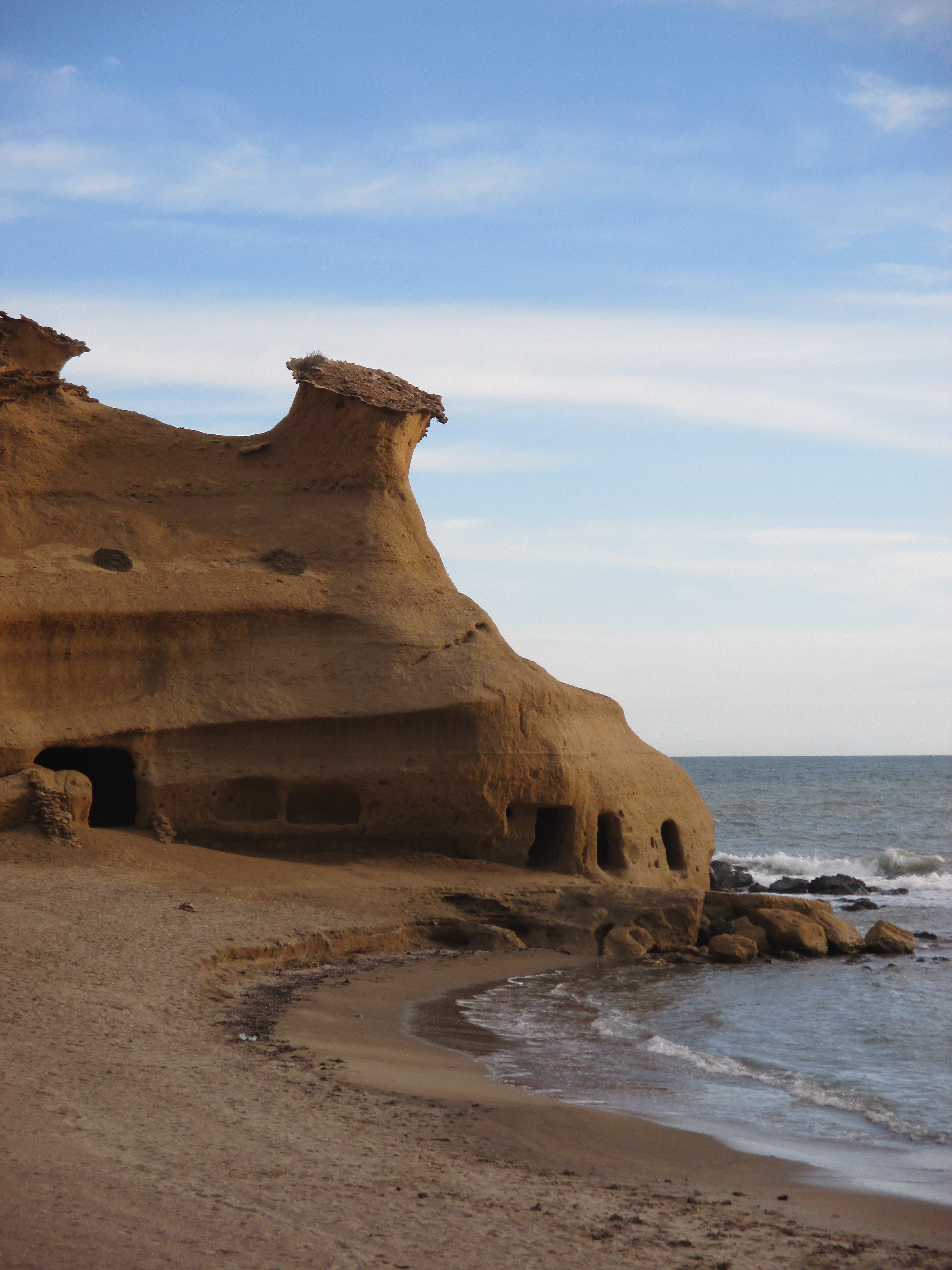 Bronw Point, noth side of Cocederos Cove, with the esparto grass stores excavated in the latest XIX century. This is a photography of a Special Area of Conservation in Spain with the ID: ES6200010. Natura2000 entry, EEA entry